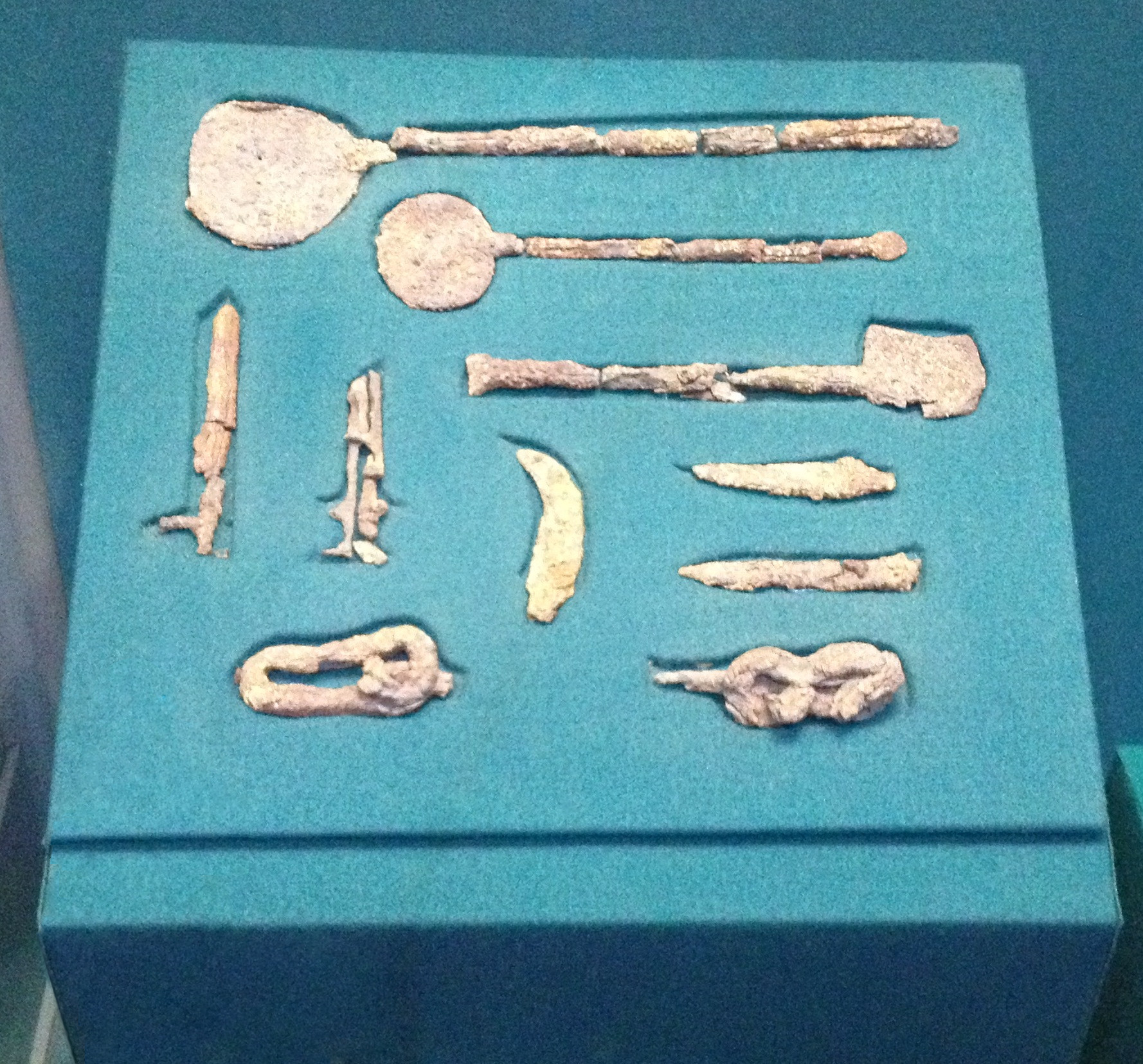 Archeological finds from mines of Ilaq. Exhibits of Museum of history of Uzbekistan